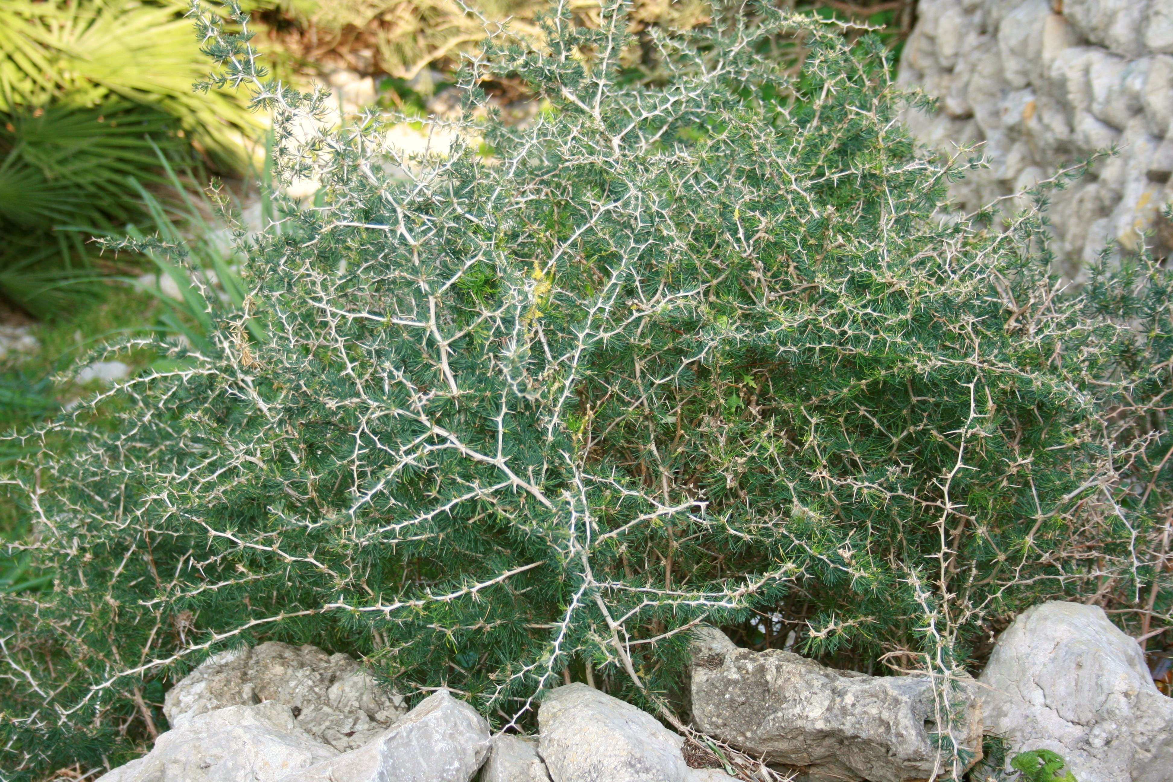 Asparagus albus growing on boulders very close to the Ermita de Betlem in Artà, Mallorca